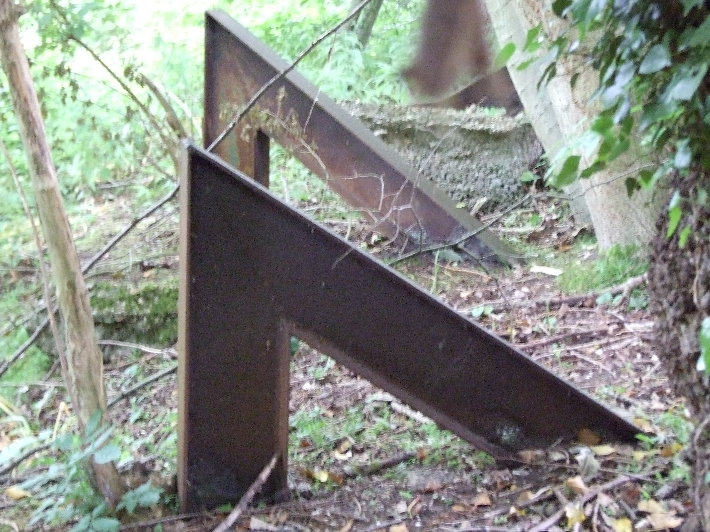 Hairpins - a type of anti-tank obstacle, Narborough.